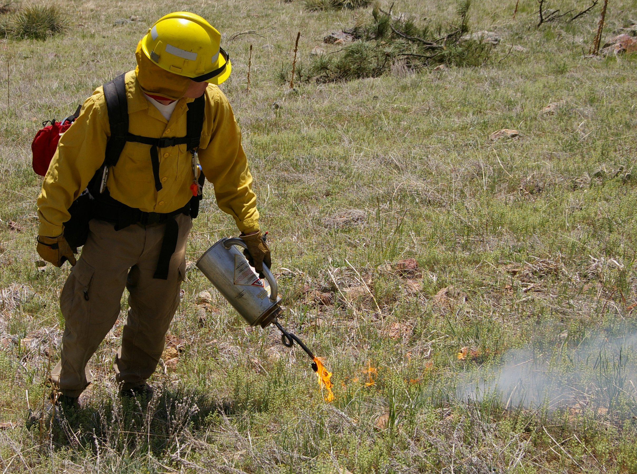 A drip torch as used in firefighting to put fire on the ground